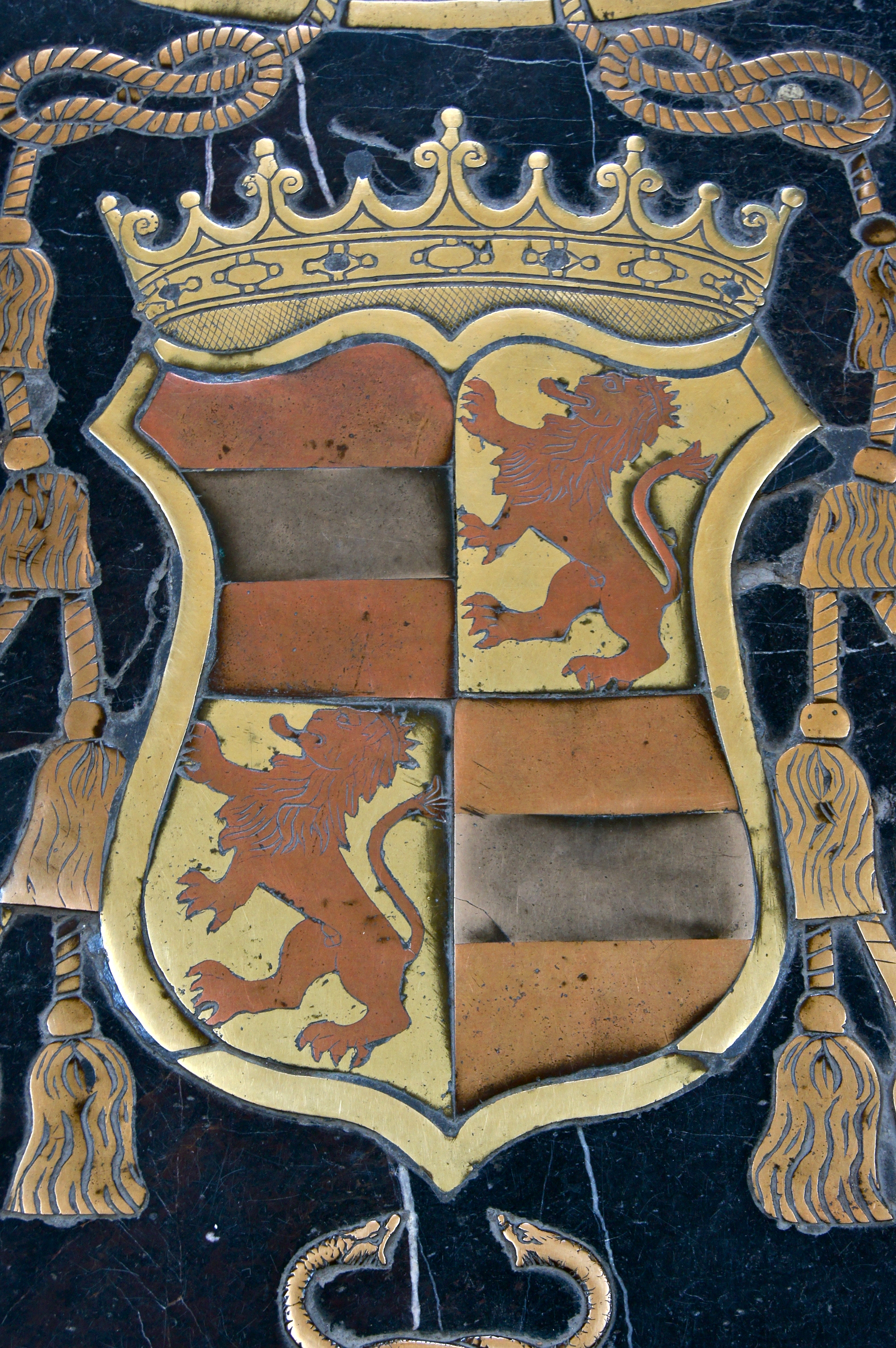 Coat of Arms, on his gravestone, of Leopold of Austria, bishop of Cordoba, Mosque-Cathedral of Cordoba, Spain. He was an illegitimate son of Emperor Maximilian of Austria, half brother of king Philip I of Castile, and Half-uncle of Emperor Charles V. He died in 1557.